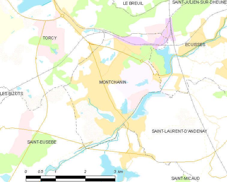 Map of French municipality